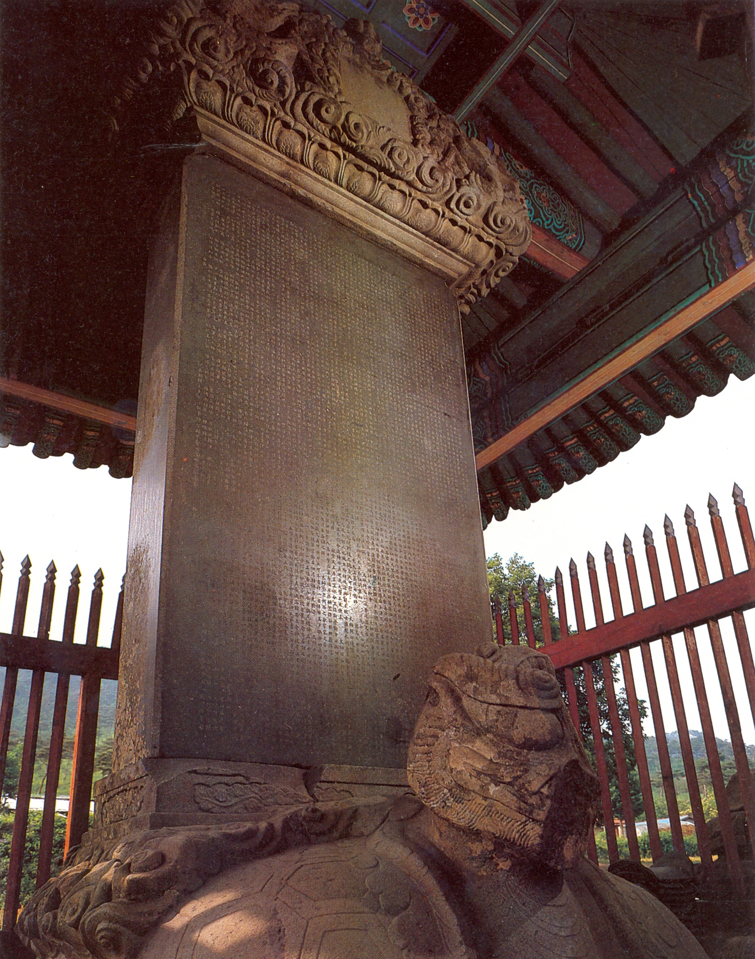 Priest Nanghye's Memorial Stele in Seongjusa Temple, National Treasures 8